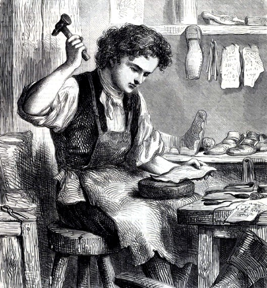 Image taken from The Band of Hope Review November 1861. Found within The Band of Hope Review 1861-67 and Child's Paper Vol. 2 1853. London: S.W. Patridge. Parker Collection BF